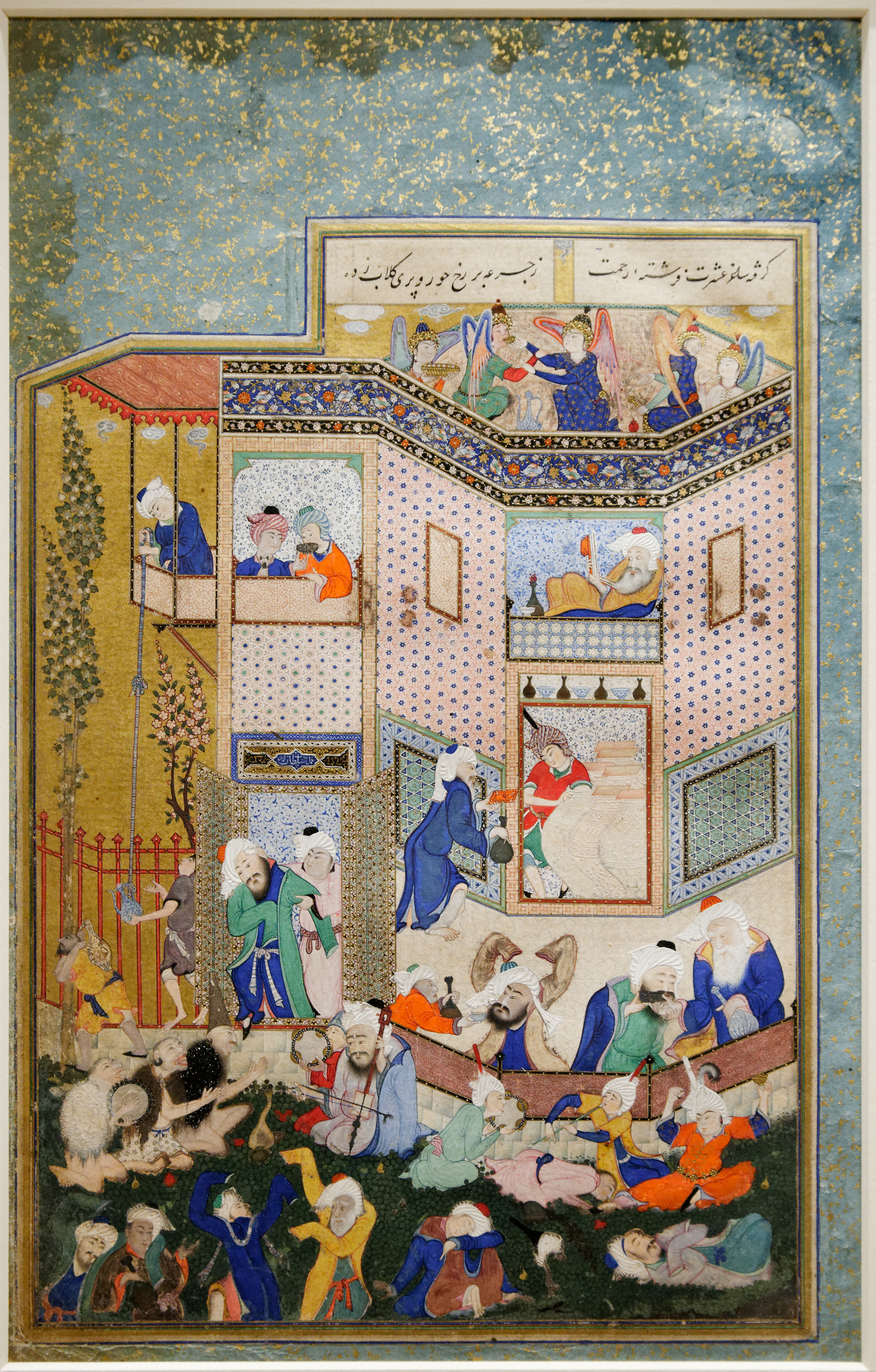 Allegory of worldly and otherworldly drunkenness, folio from from the Divan of Hafiz, Safavid artwork.